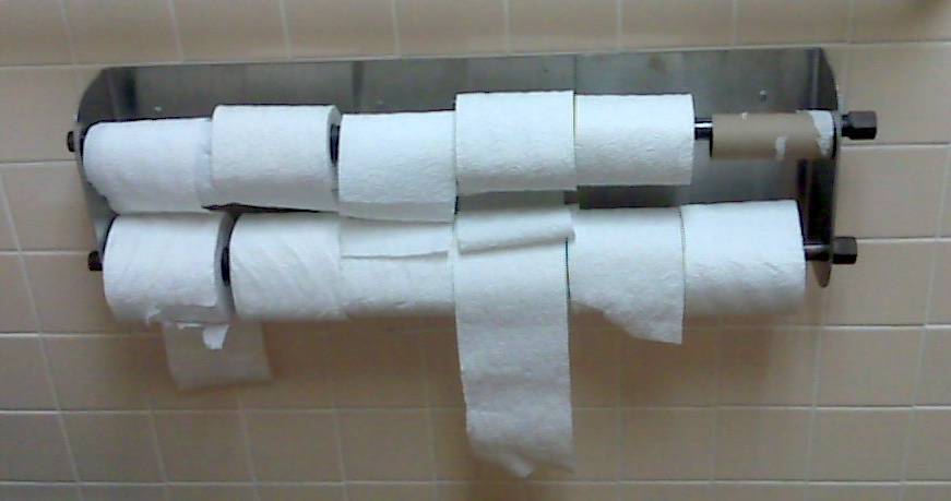 Cropped and contrast increased from original. Original title: "What" Original caption: "Why is there so much toilet paper. Why."